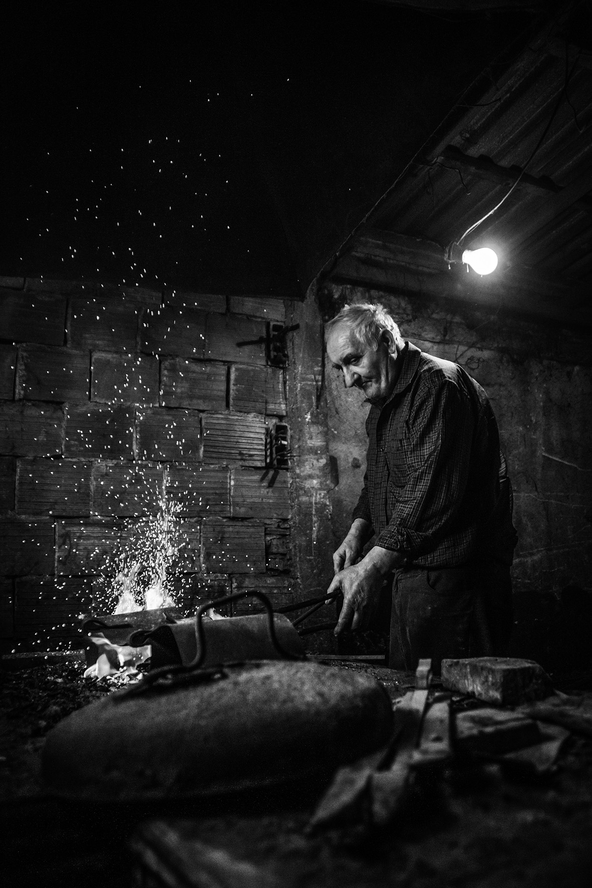 The coppersmith